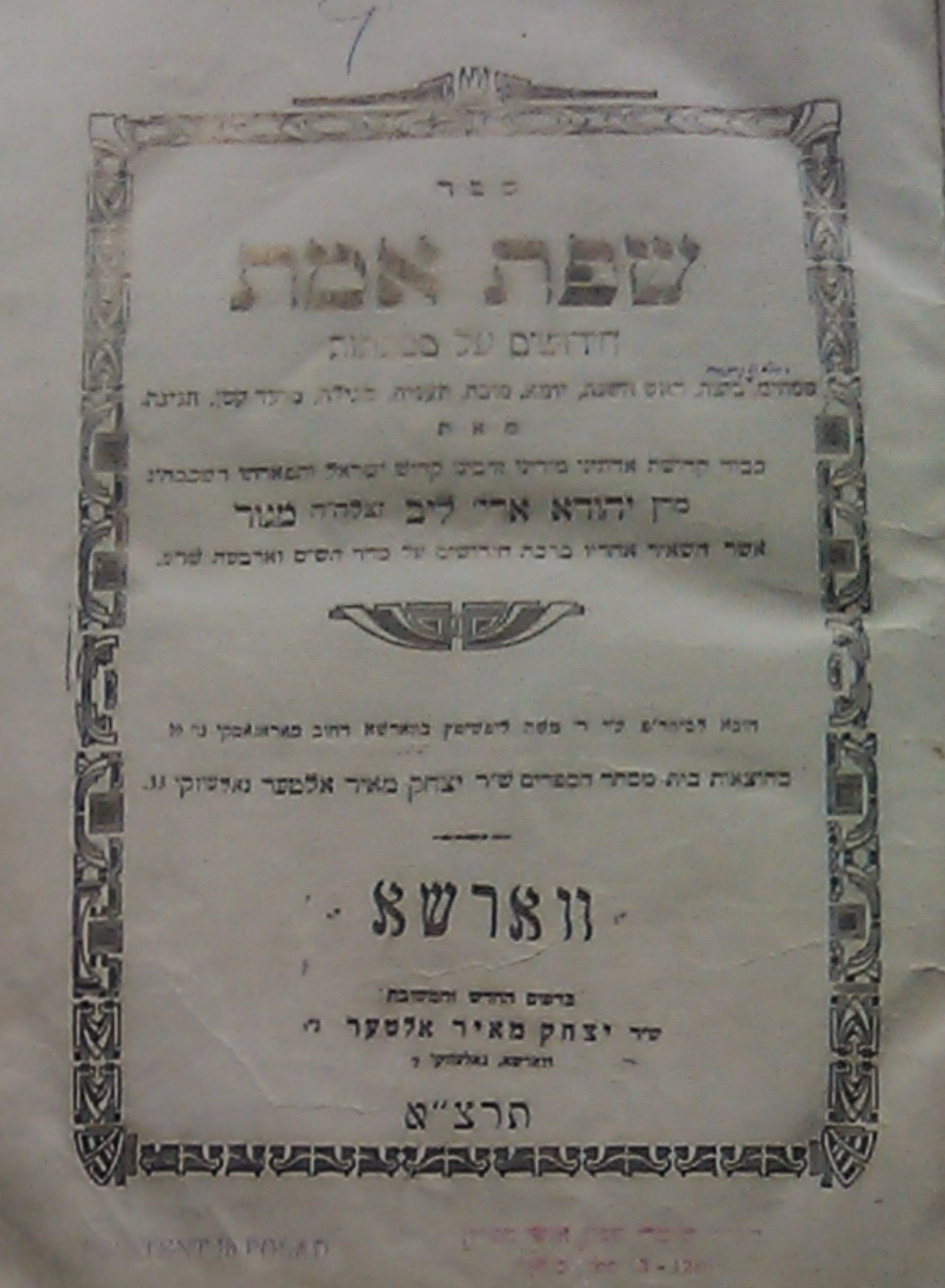 title page of שפת אמת printed in Poland before WW2